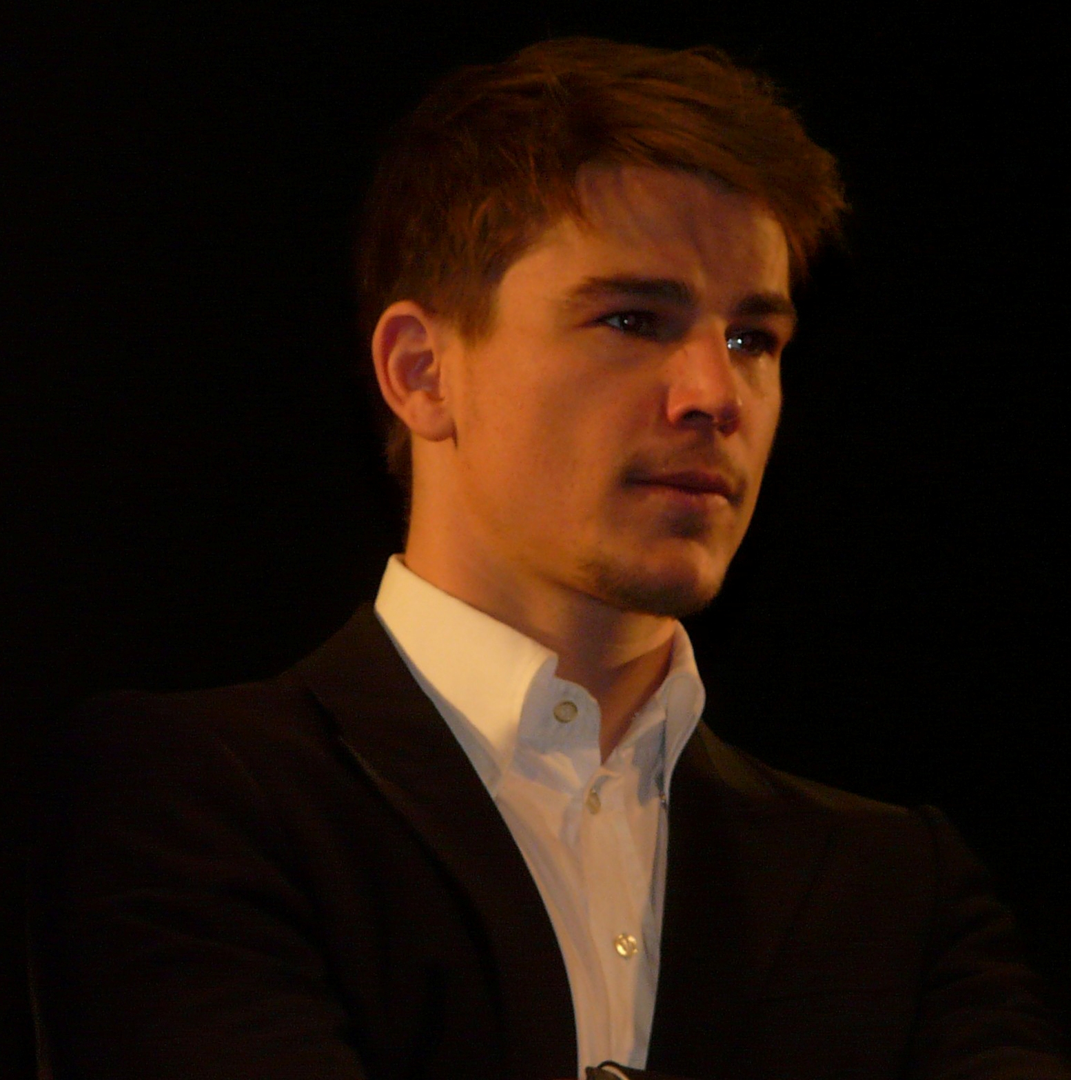 Josh Hartnett in St Giles's, London in November 2008.